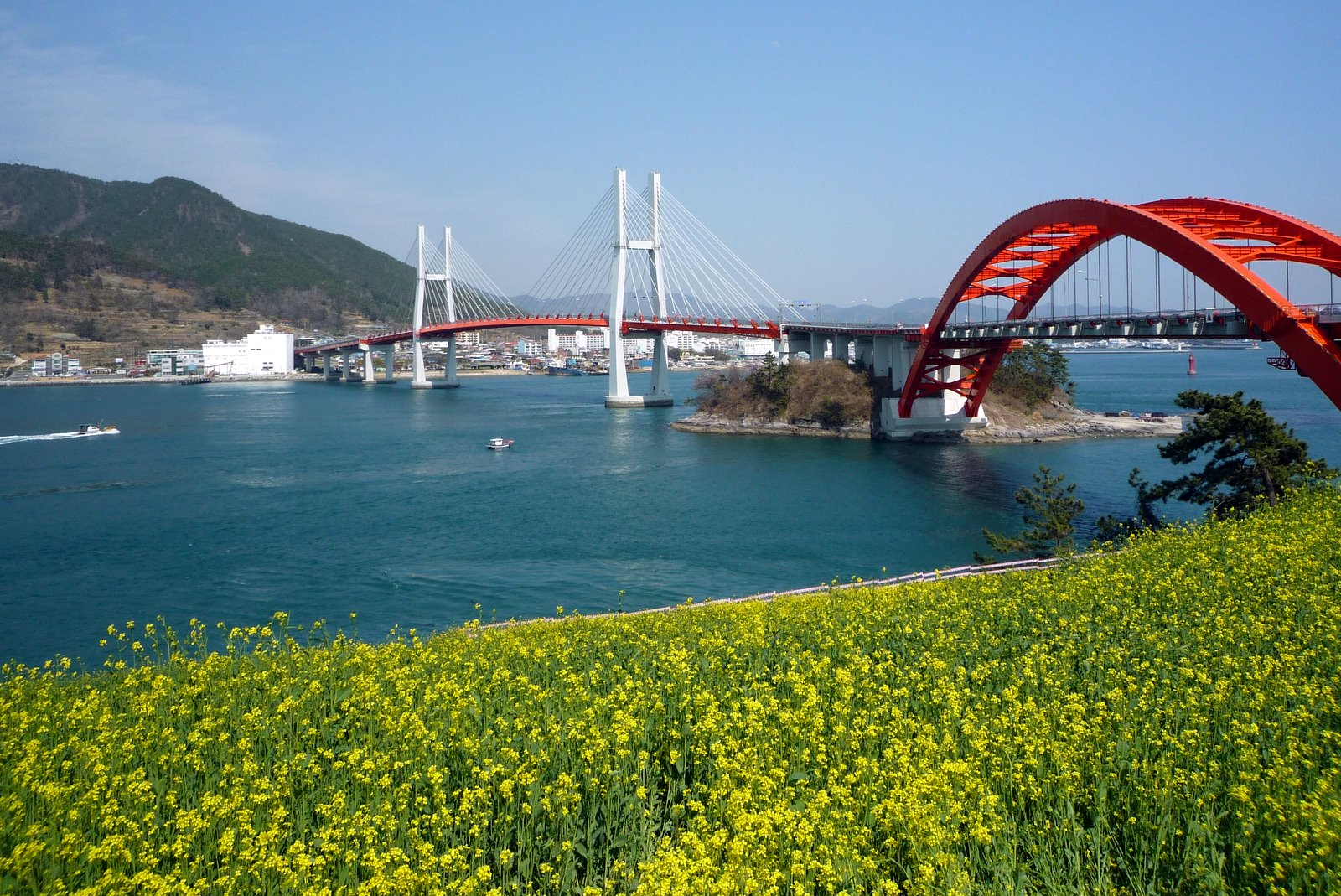 Changsun Sachunpo Bridge